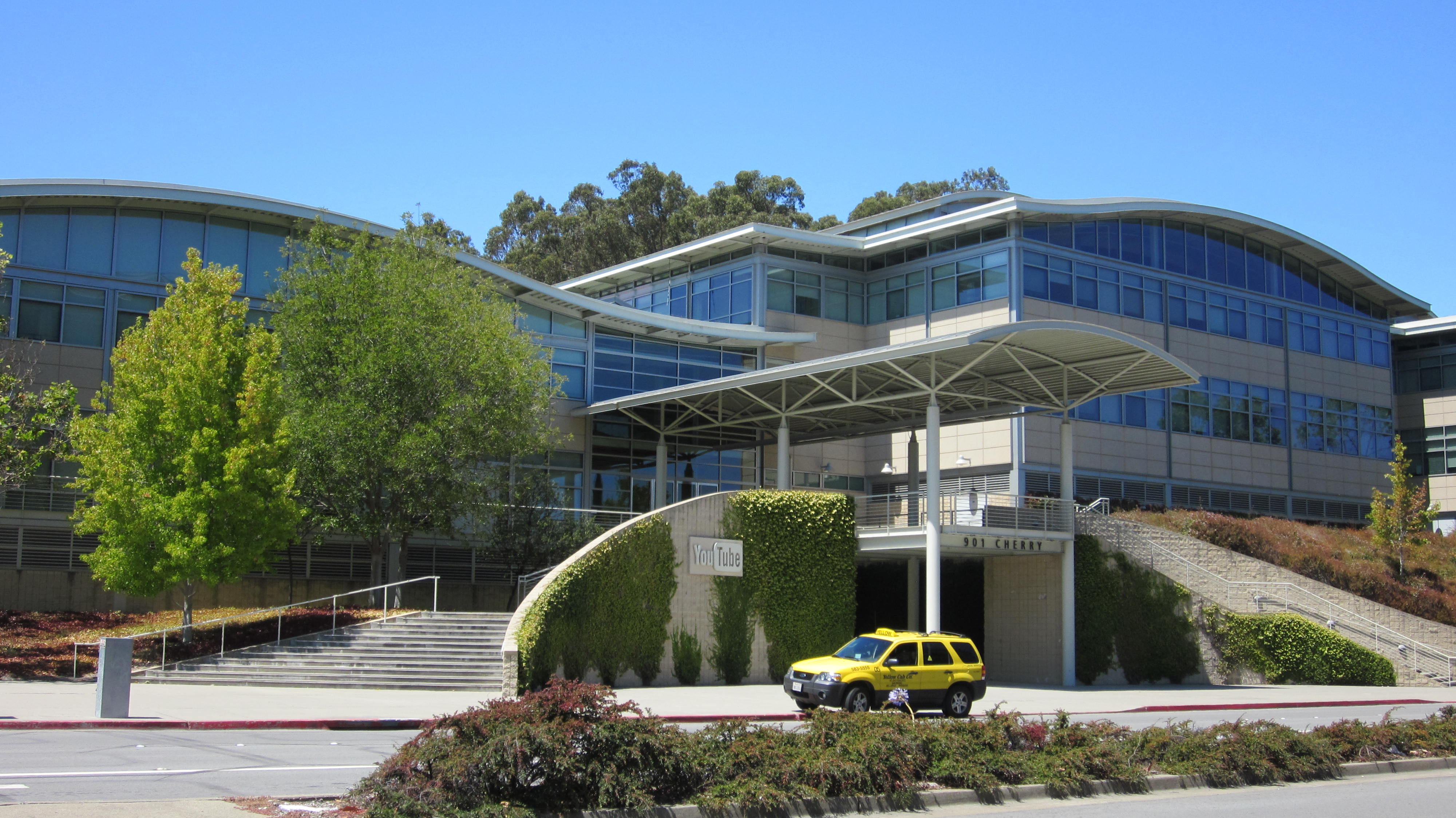 YouTube headquarters in San Bruno, California.